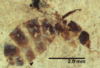 Proiridomyrmex rotundatus specimen